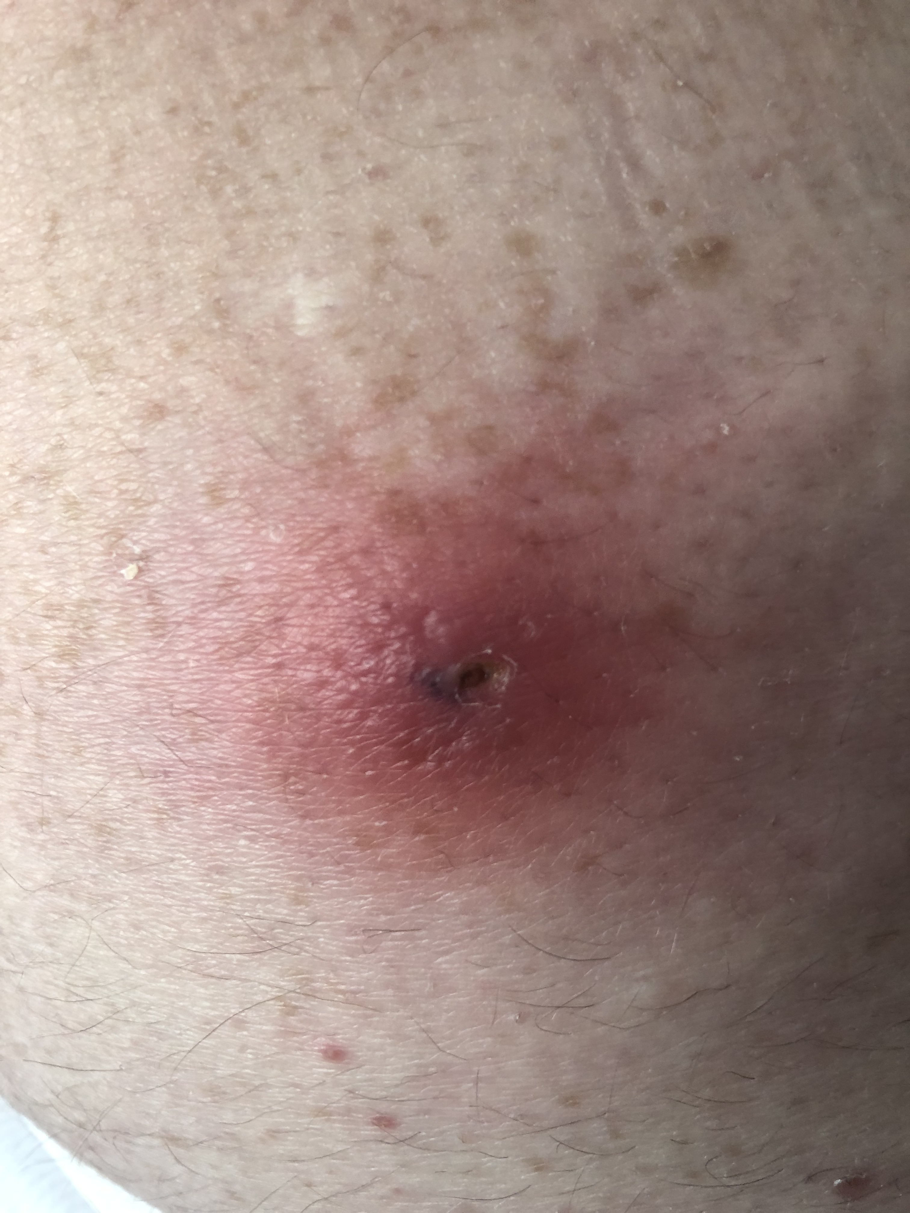 pruritic papule of Myasis furuncle by Cordylobia anthropophaga